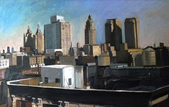 NY From roof terrace 155 W 68 street